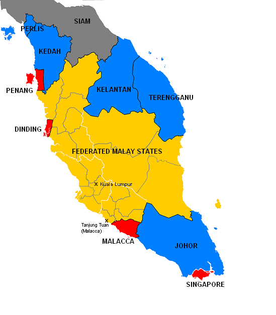 British Malaya circa 1922 Straits Settlements Federated Malay States Unfederated Malay States